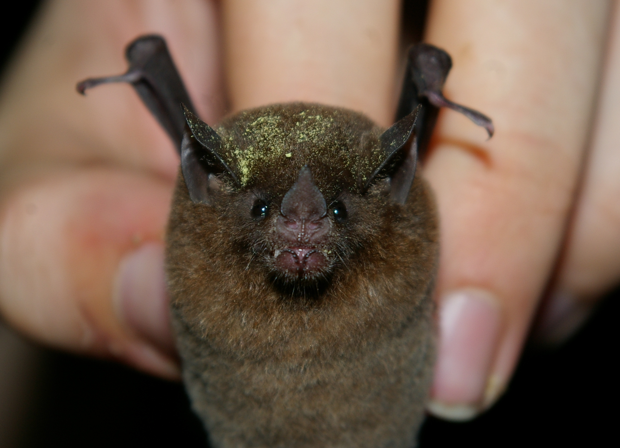 Glossophaga commissarisi with pollen